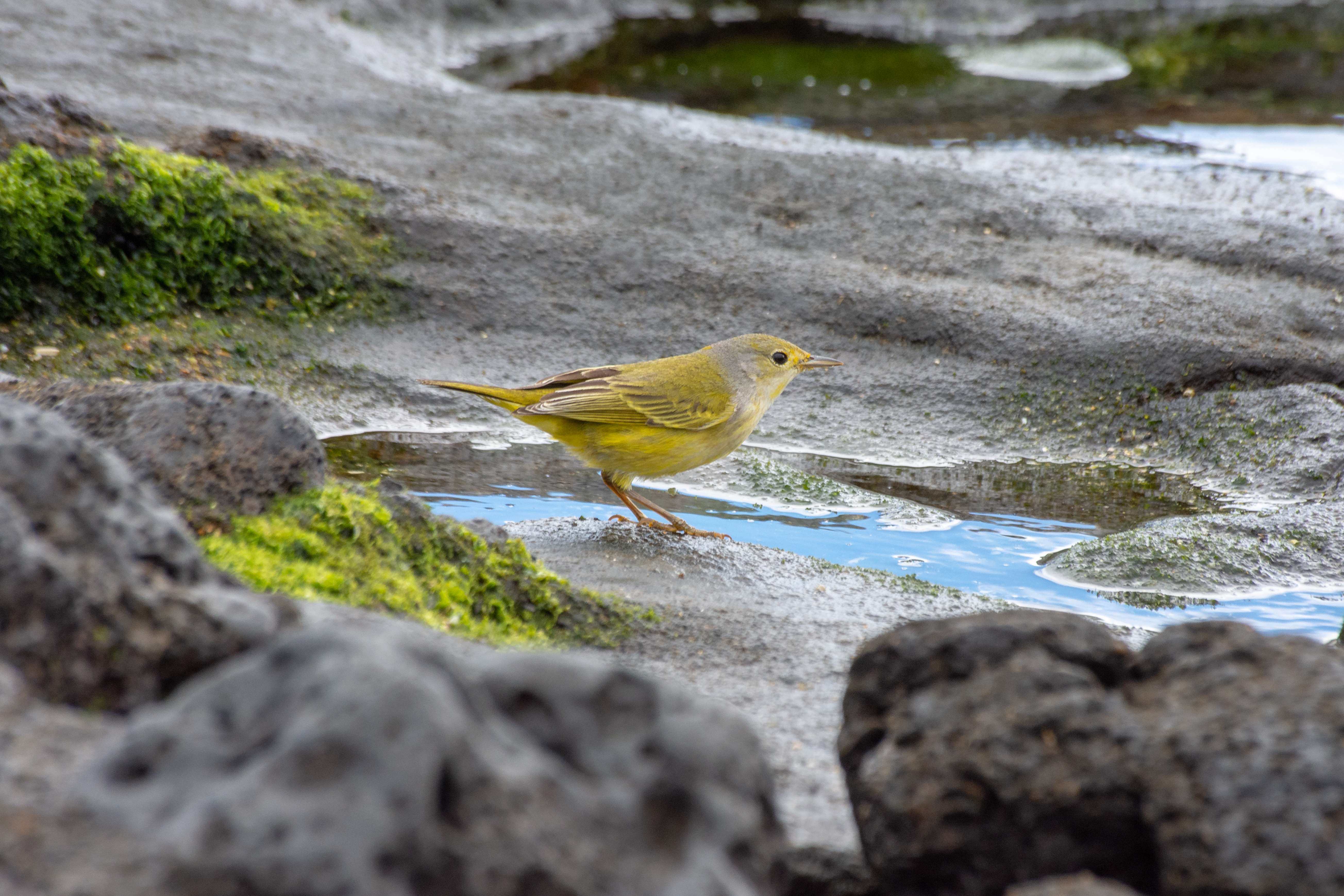 Yellow Warbler (Setophaga petechia aureola)